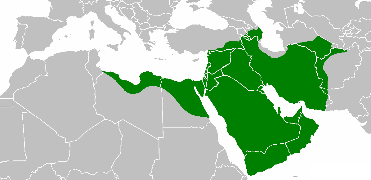 Mohammad adil rais-Caliph Umar's empire at its peak 644